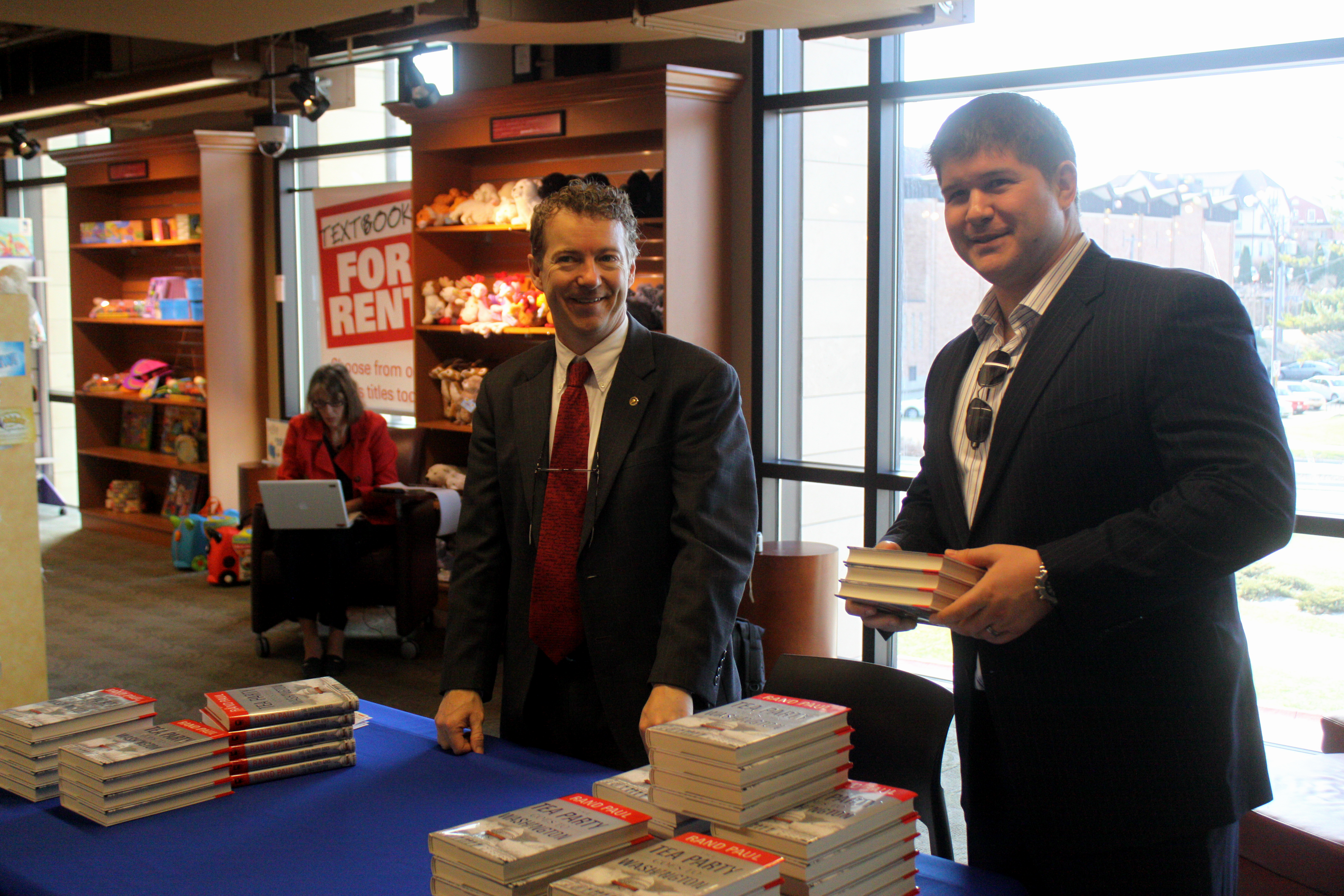 United States Senator Rand Paul of Kentucky at a book signing at Iowa State University in Ames, Iowa, along with Jesse Benton.